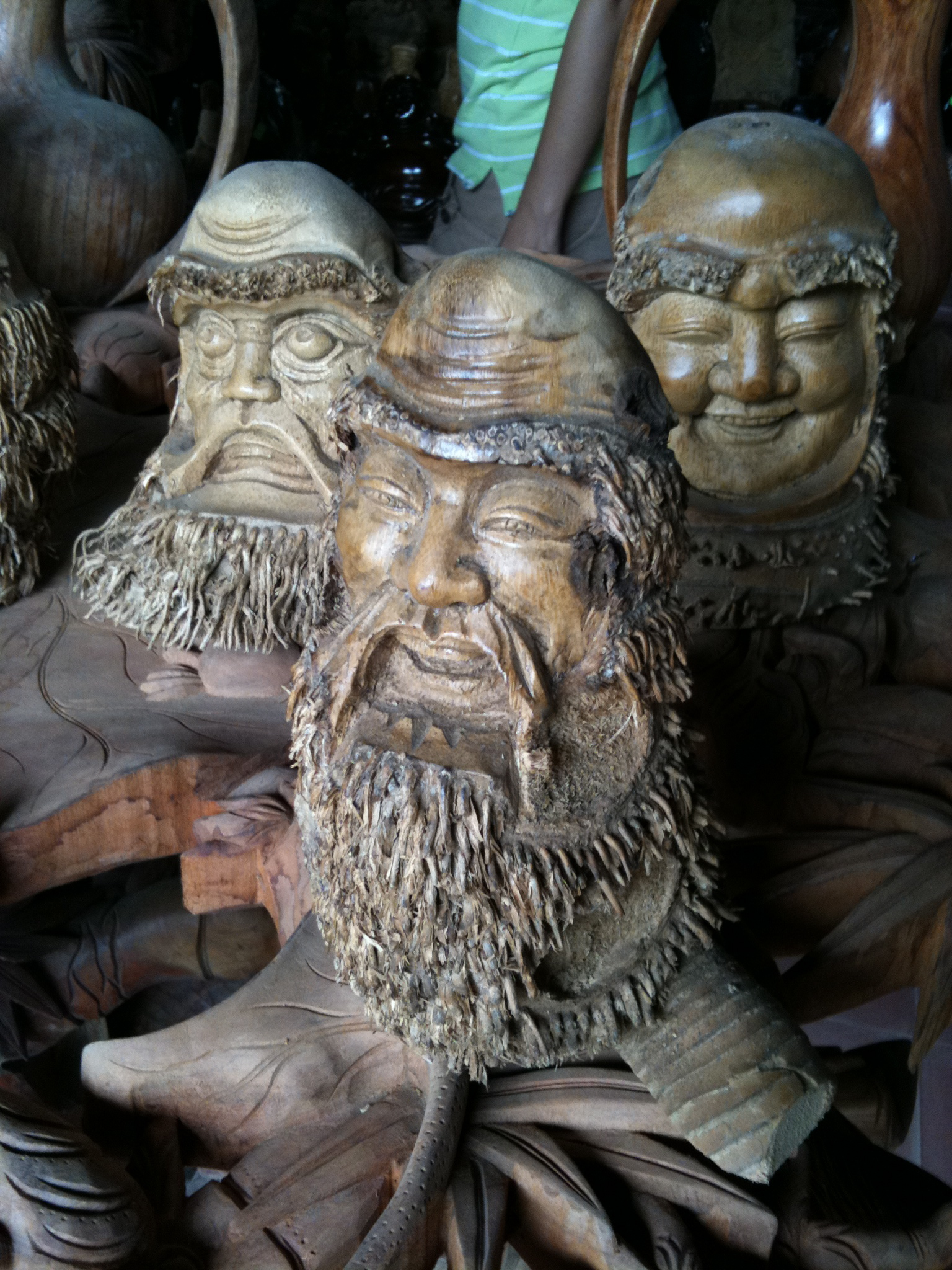 Wooden artwork found in Kim Bong village, Hoi An, Vietnam.